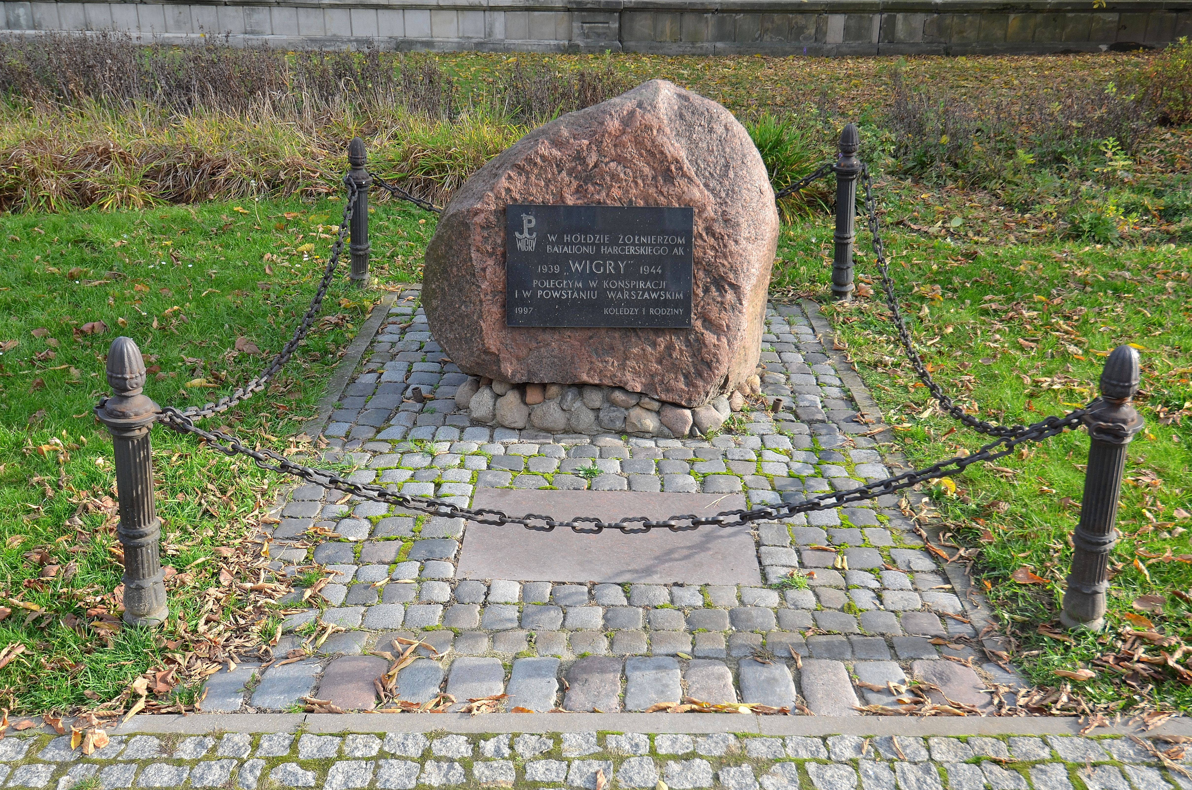 Commemorative stone in Wigry Batallion Square in Warsaw